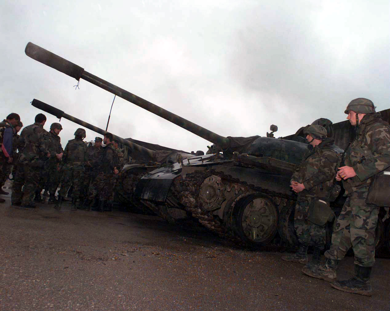 Members of the Division Site Inspection Team inspect T-55 tanks belonging to the 28th BIH (Bosnia-Herzegovina) Division, 281st Brigade, 1st Tank Battalion, stationed in Visca, Bosnia. The Division Site Inspection Team is tasked with inspecting for accountability and insuring heavy weapons from the different factions are in approved storage sites, per the Dayton Peace Accord during Operation Joint Endeavor. The team is comprised of soldiers from Division Artillery, 1st Armored Division, from Budigen Germany; 4-29 Field Artillery Battalion, 1st Armored Division, from Baumholder, Germany; 1-4 Cavalry Squadron, 1st infantry Division, from Budigen, Germany, attached to 2nd Brigade, 1st Armored Division, Task Force Eagle, 61st Ordnance Company EOD (Explosive Ordnance Disposal), 546 Ordnance Battalion, 52nd Ordnance Group EOD, from Fort Sam Houston, Texas.